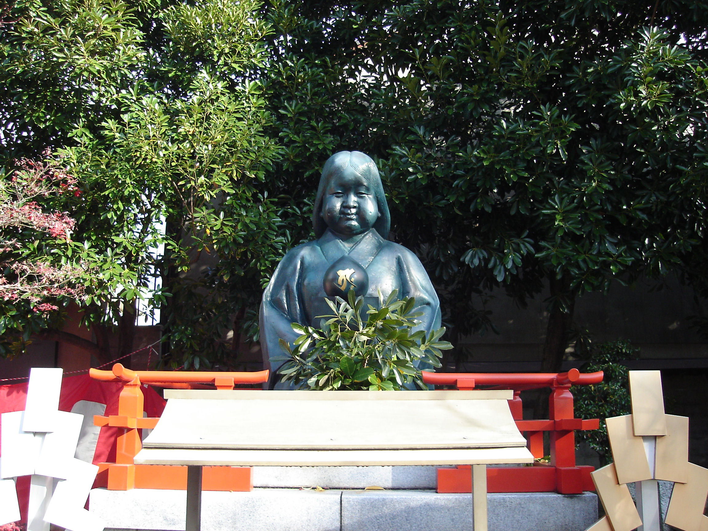 Statue of Okame(japanese traditional beauty) in Daihouonji , kyoto japan